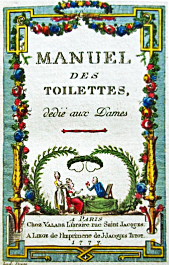 Manuel for Toilets dedicated to the Ladies. Liège 1777.